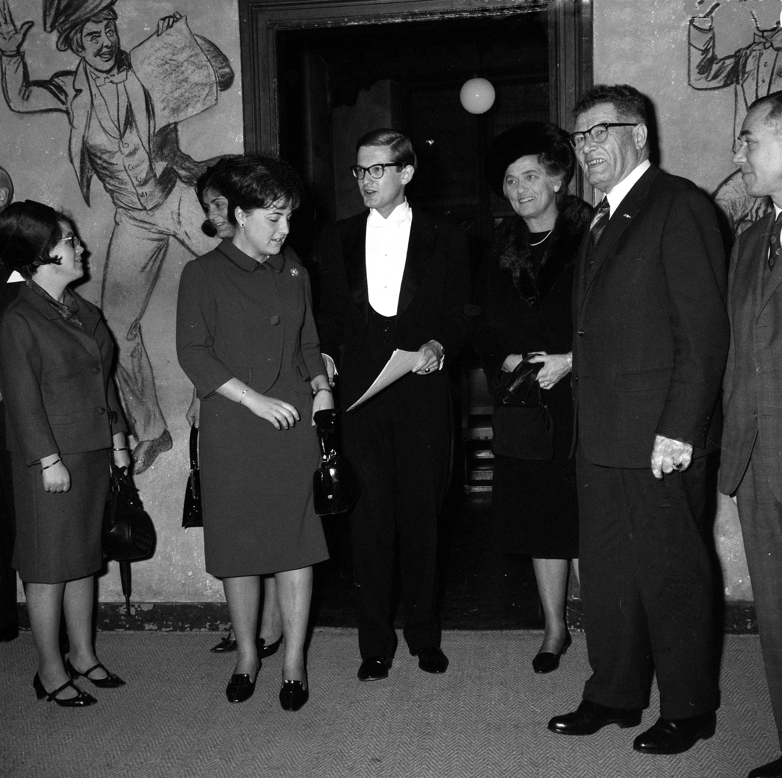 Graduation of Mr. Pieter van Vollenhoven at Leiden University (The Netherlands), 30 November 1965. From left to right: princess Christina, princess Margriet, Pieter van Vollenhoven, mrs. Van Vollenhoven-De Lange and Prof. J.M. van Bemmelen